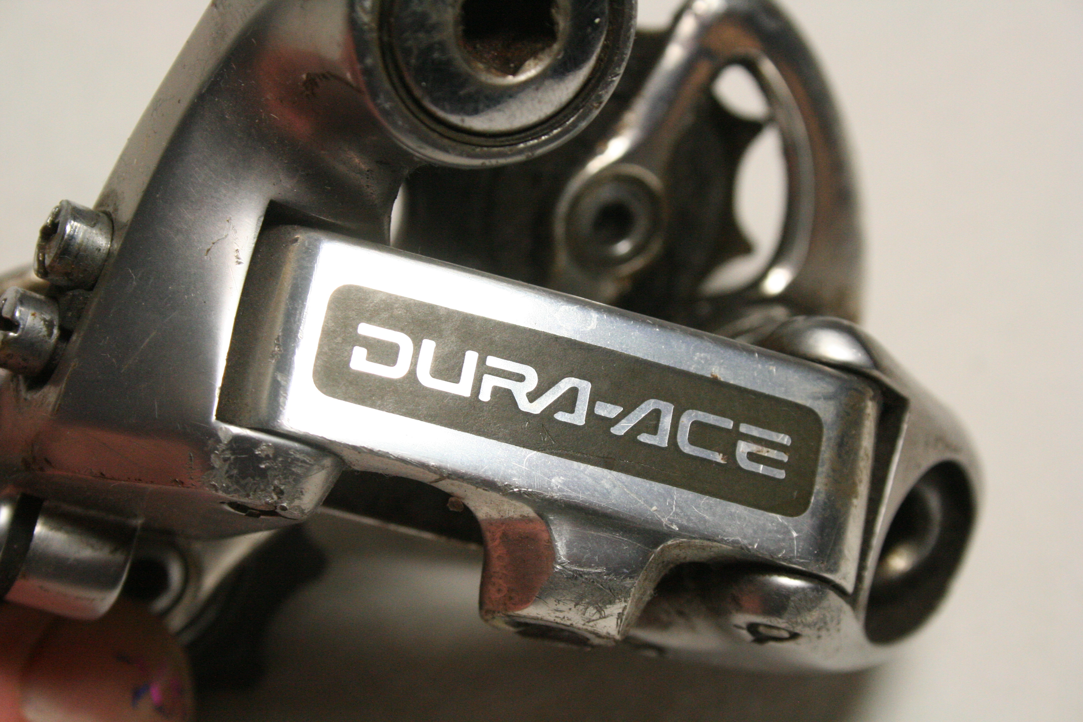 Shimano DuraAce Derailleur gears